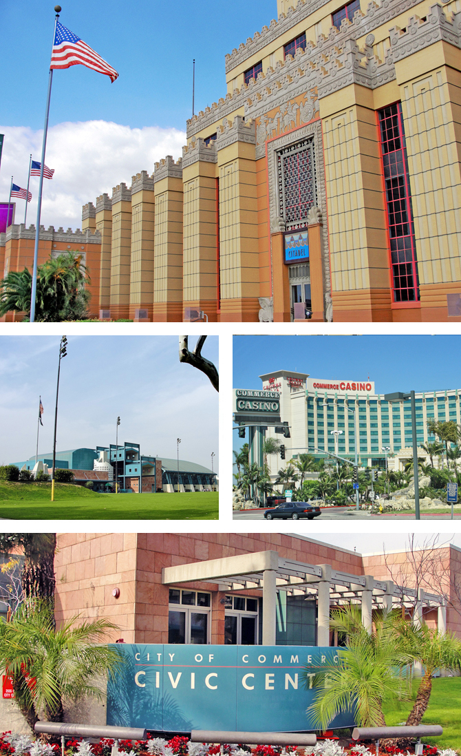 City of Commerce Montage